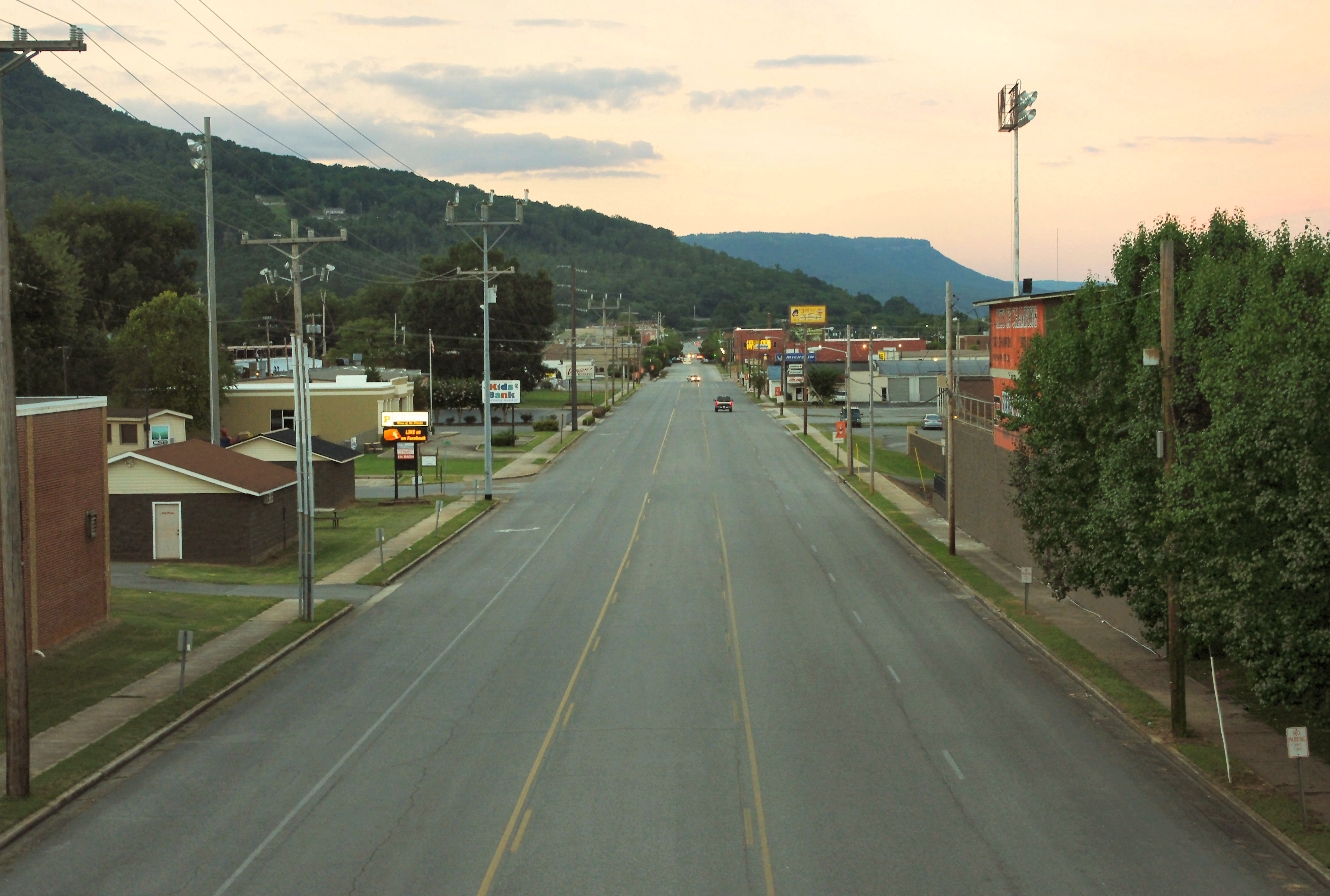 South Cedar Avenue in South Pittsburg, Tennessee, United States. This view is from the pedestrian bridge at South Pittsburg High School.